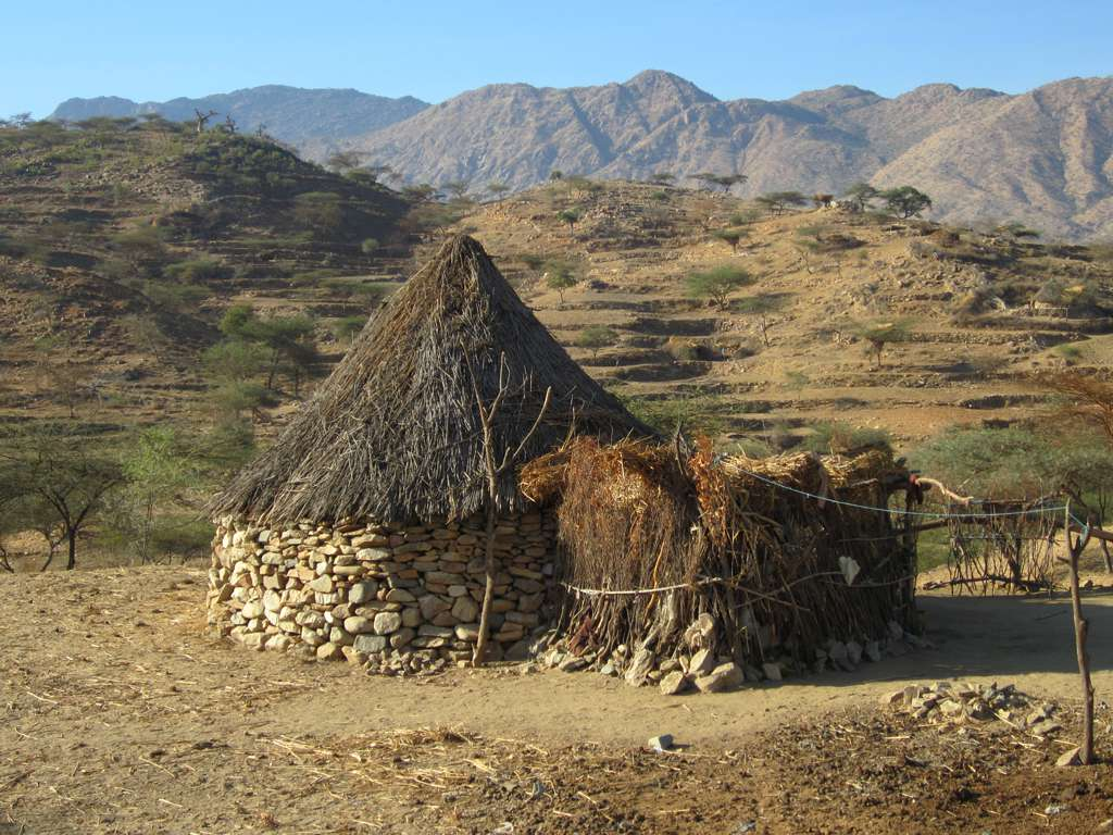 A Bilen house east of Keren, Eritrea.